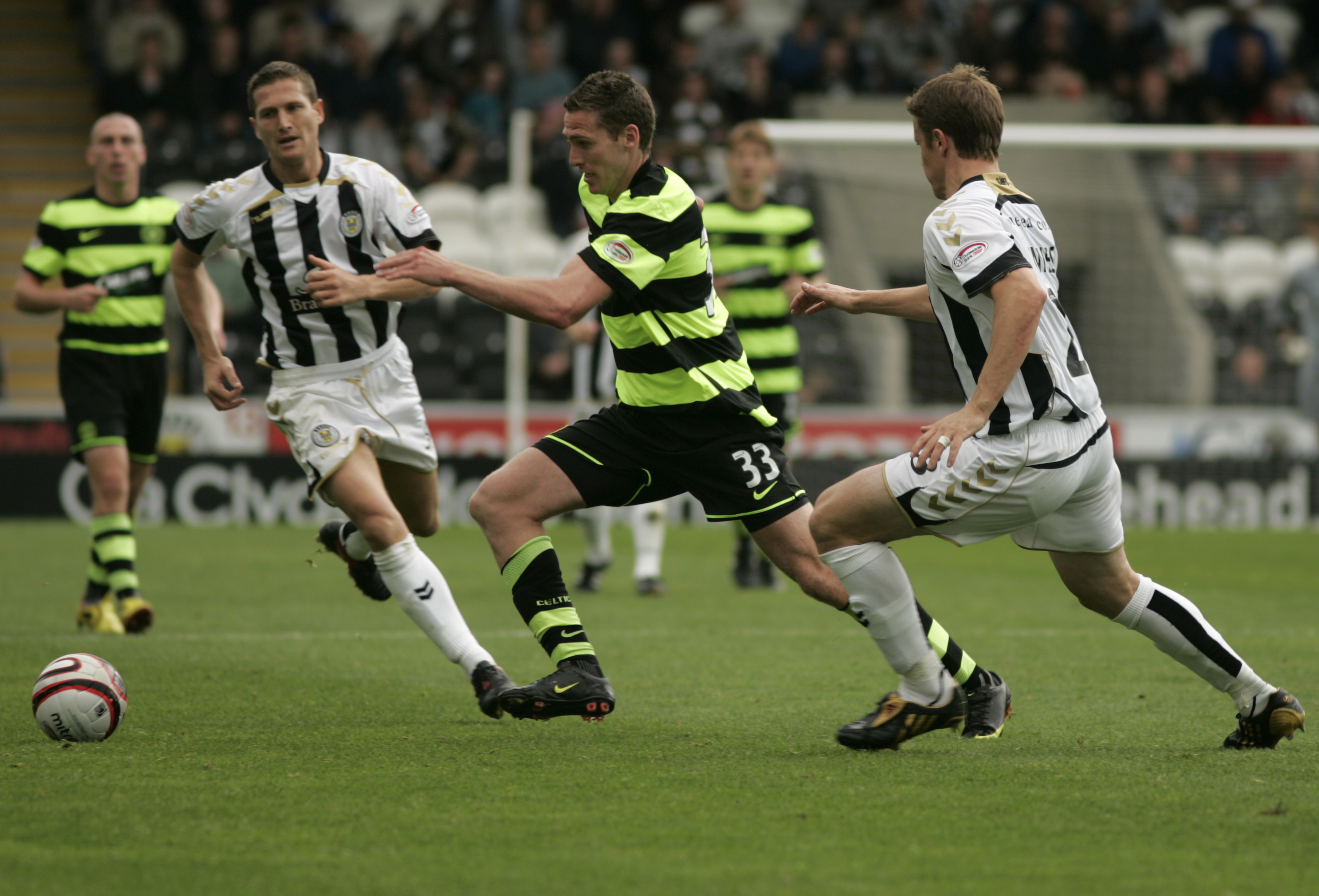 Chris Killen